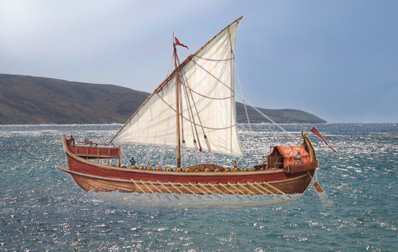 Conjectural reconstitution of a dromon, since Rafael Monleon's paintings in the Naval Museum of Madrid, according with basileus Leon's descriptions.